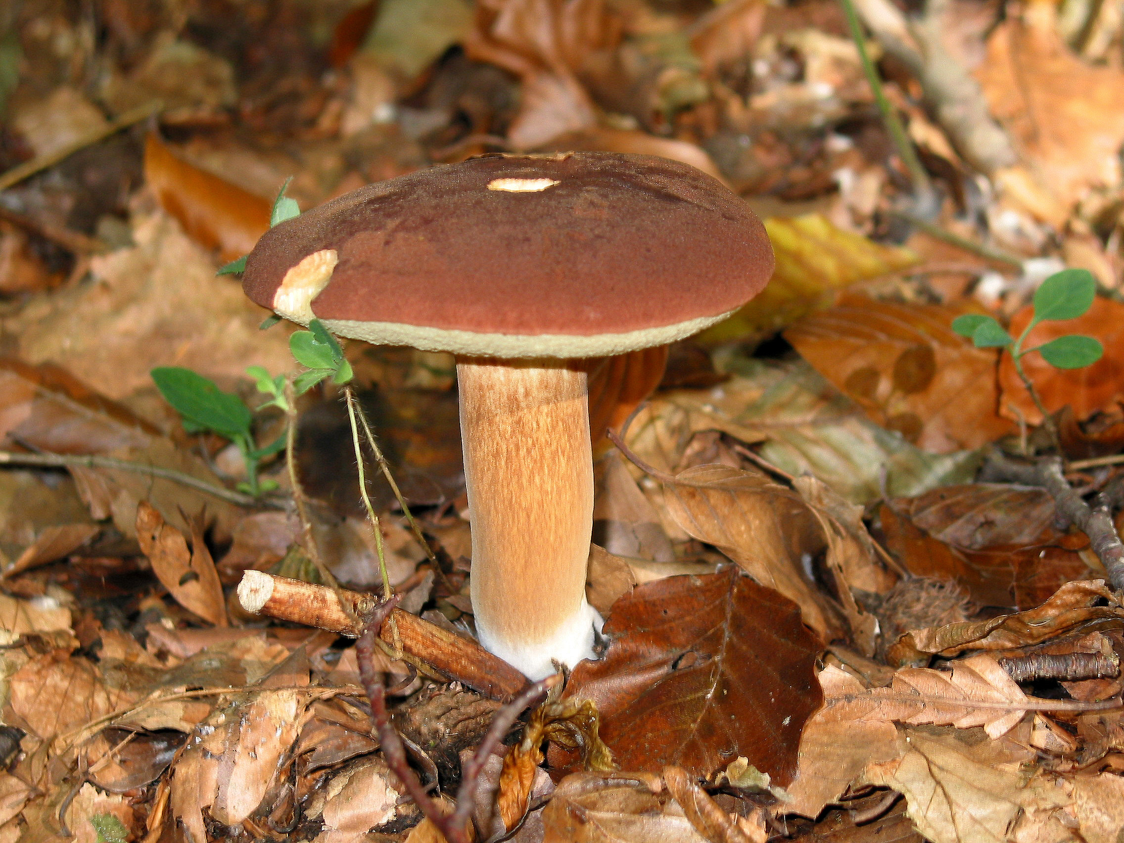 Bay bolete – Havré (Belgium), under beech and oak.